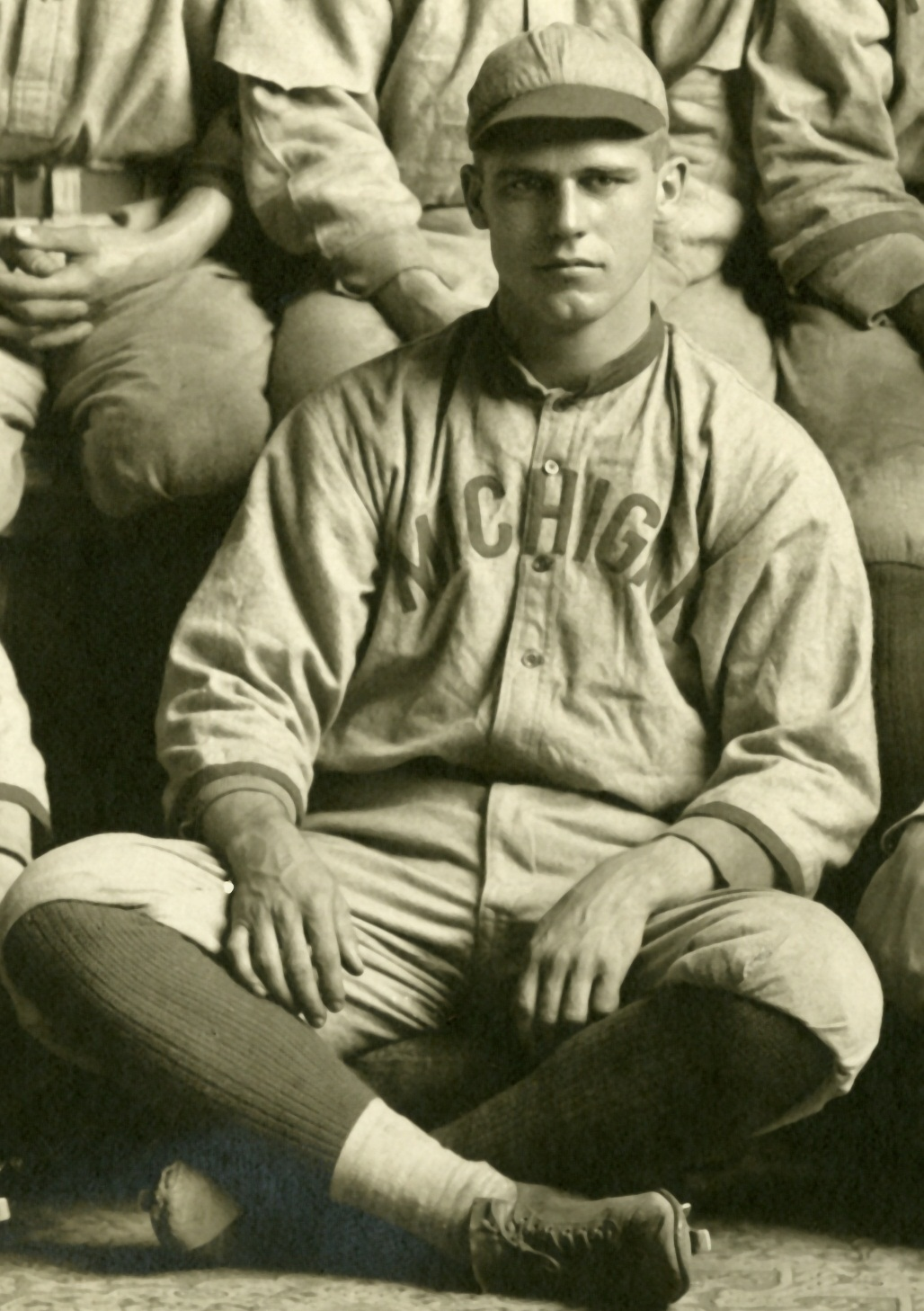 Photograph of George Sisler cropped from team portrait of 1914 University of Michigan baseball team